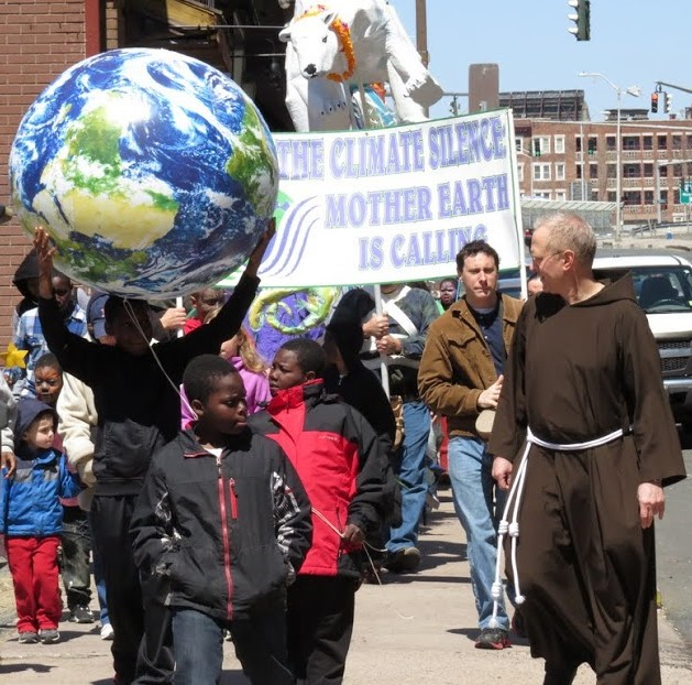 First annual Riverfront Earth Day environmental awareness event in Hartford, CT.